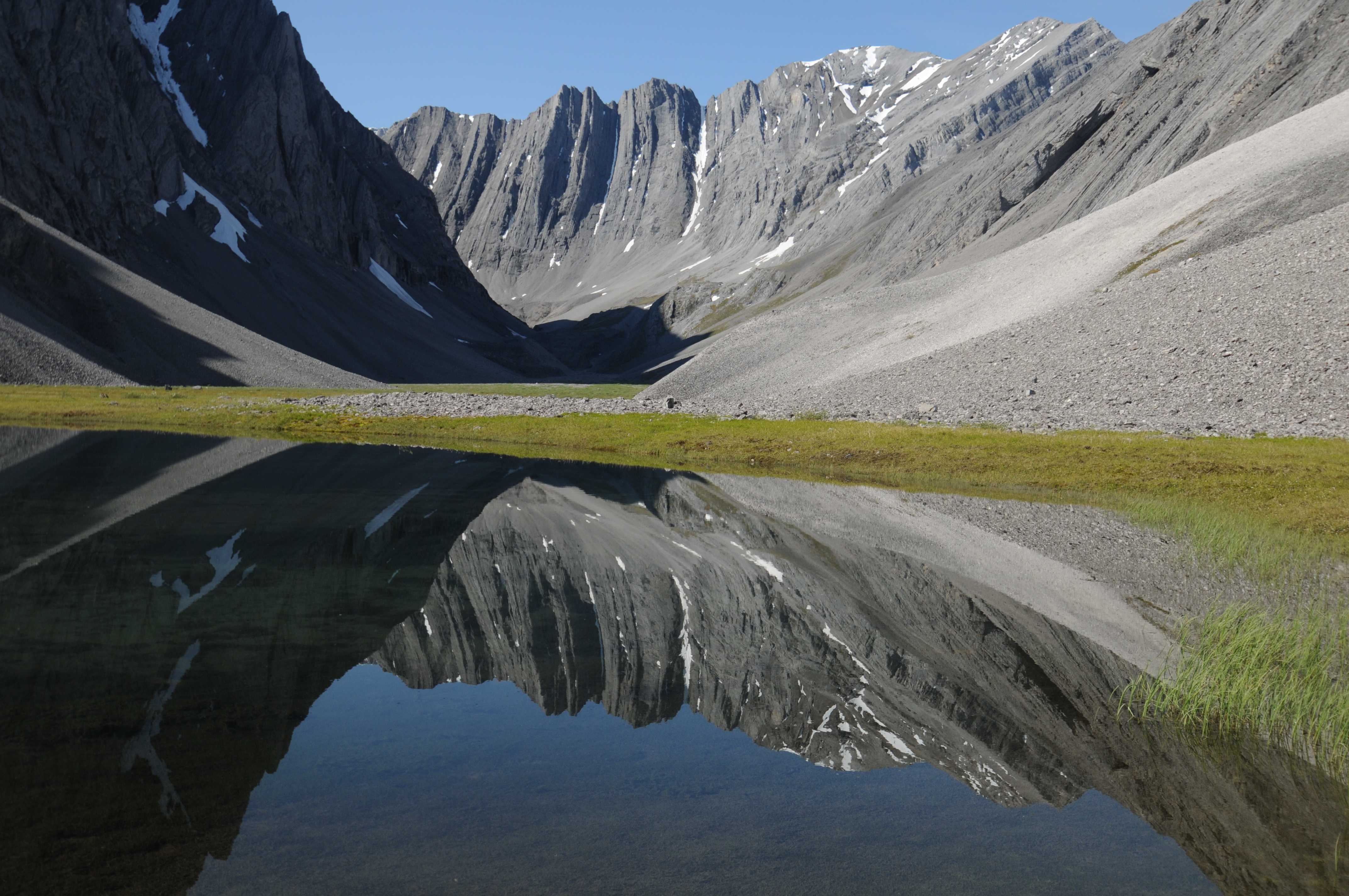 Small tarn in a hidden valley in the Itkillik Preserve, sometimes called the Yosemite of the Arctic. Gates of the Arctic National Park and Preserve. NPS Photo/Cadence Cook